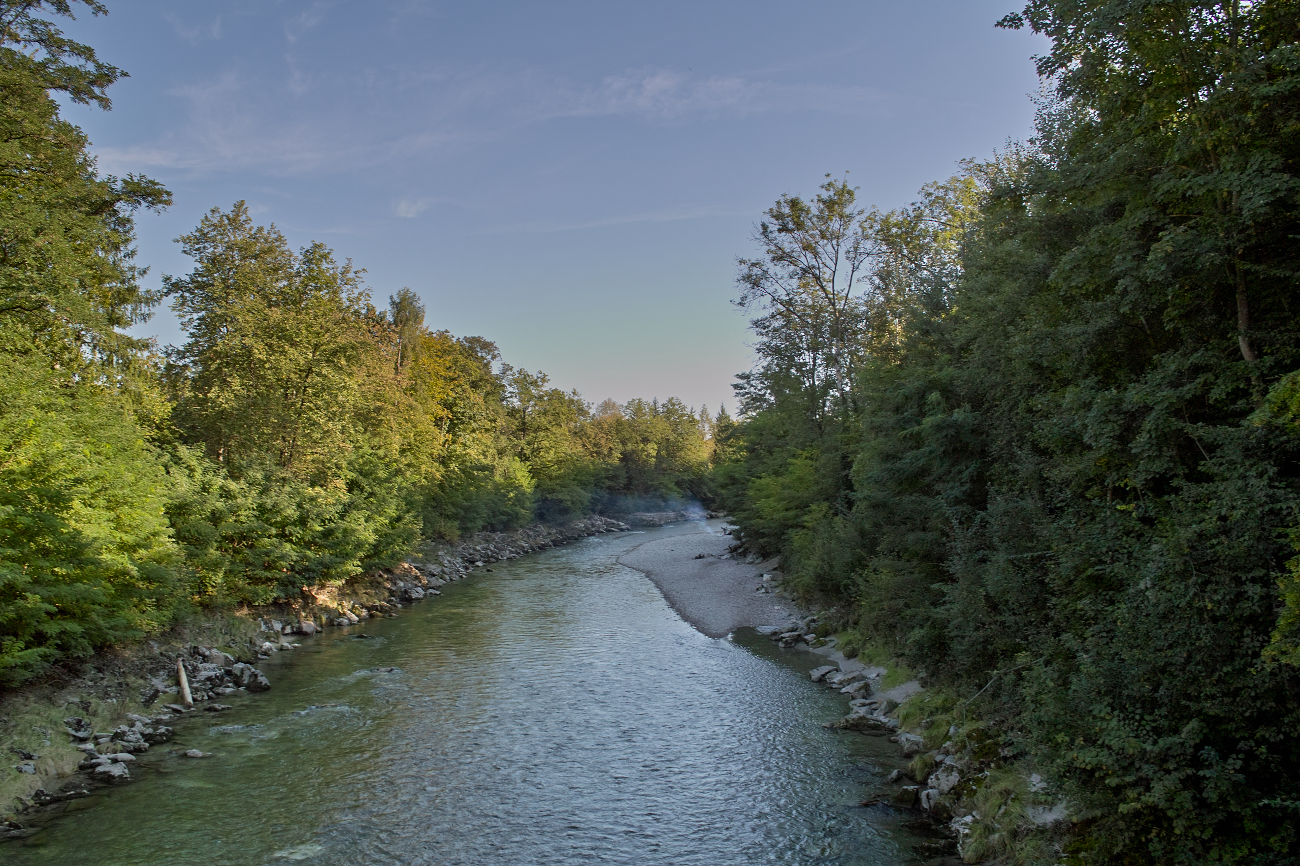 River Emme seen from the bridge at Derendingen, canton of Solothurn, Switzerland. Upstream view